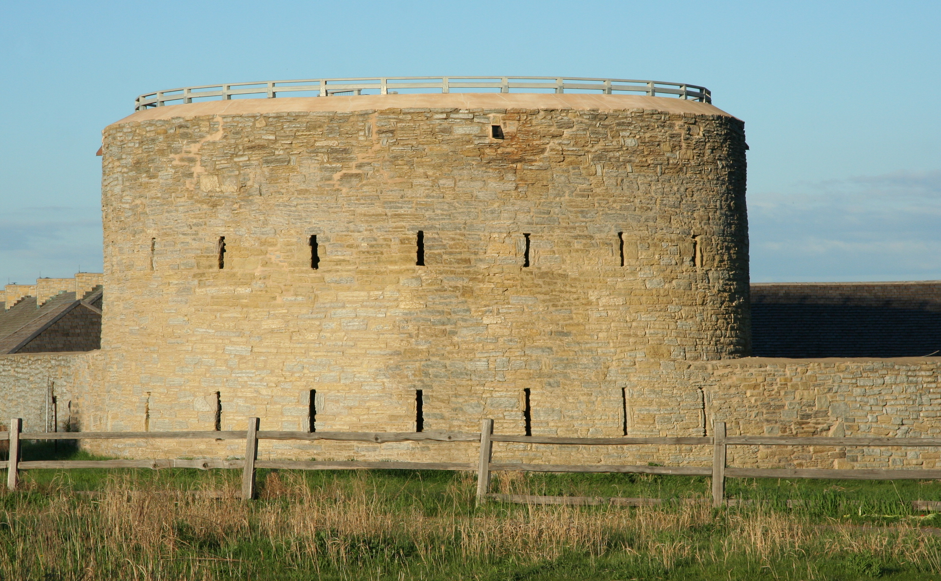 The old stone round tower of historic Fort Snelling, Minnesota